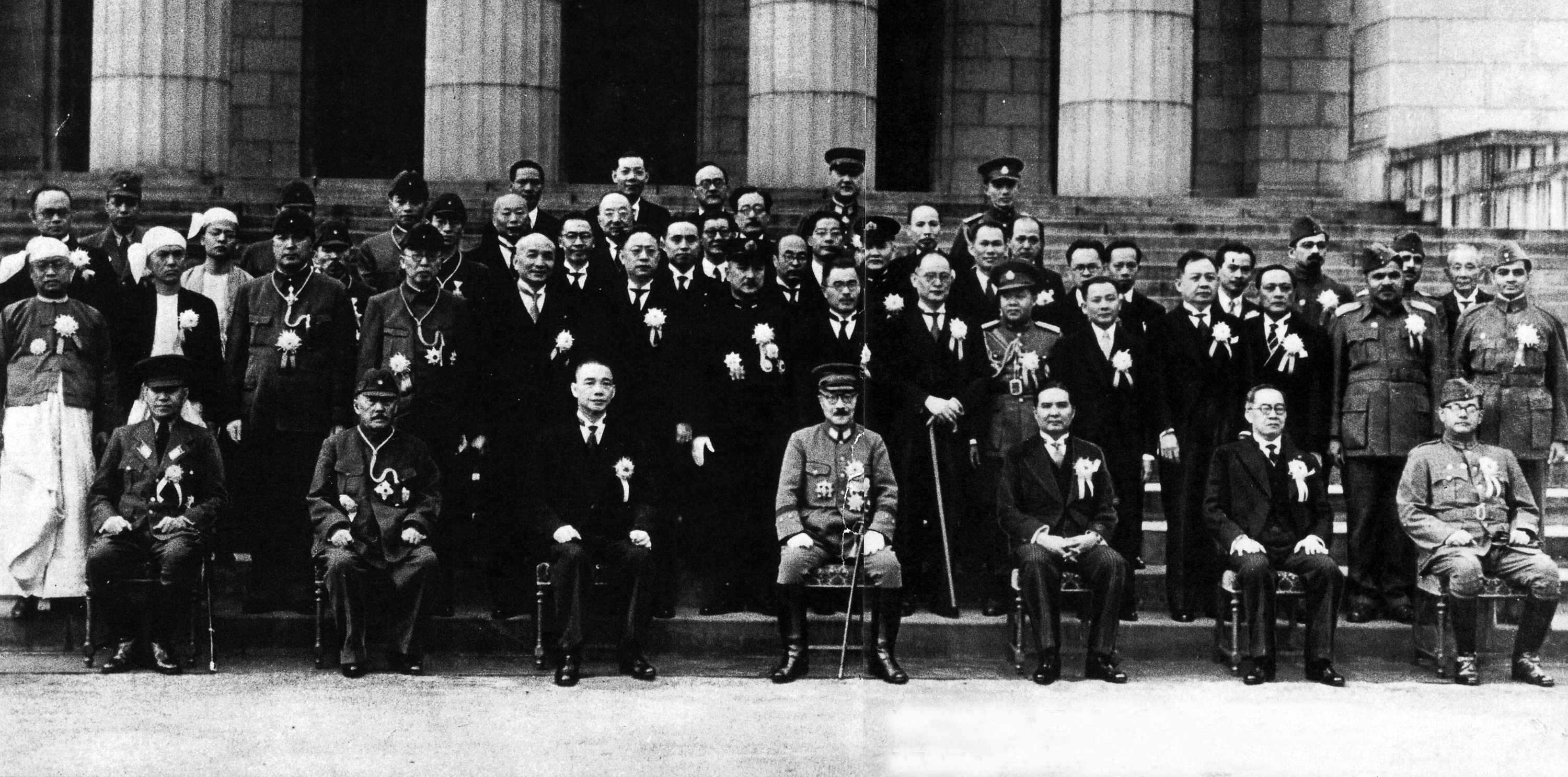 Leaders of East Asian countries in Tokyo (1943)